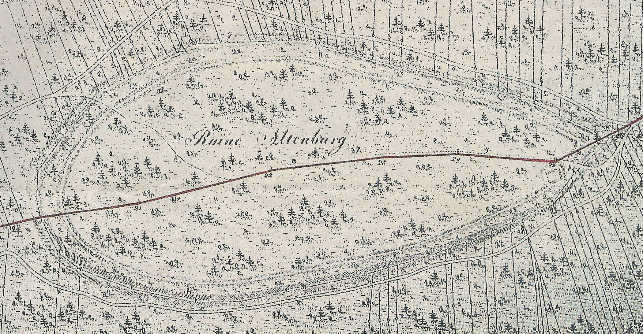 Map of ruins of Altenburg Castle in the Spessart mountains in Germany, in the northwest of Bavaria